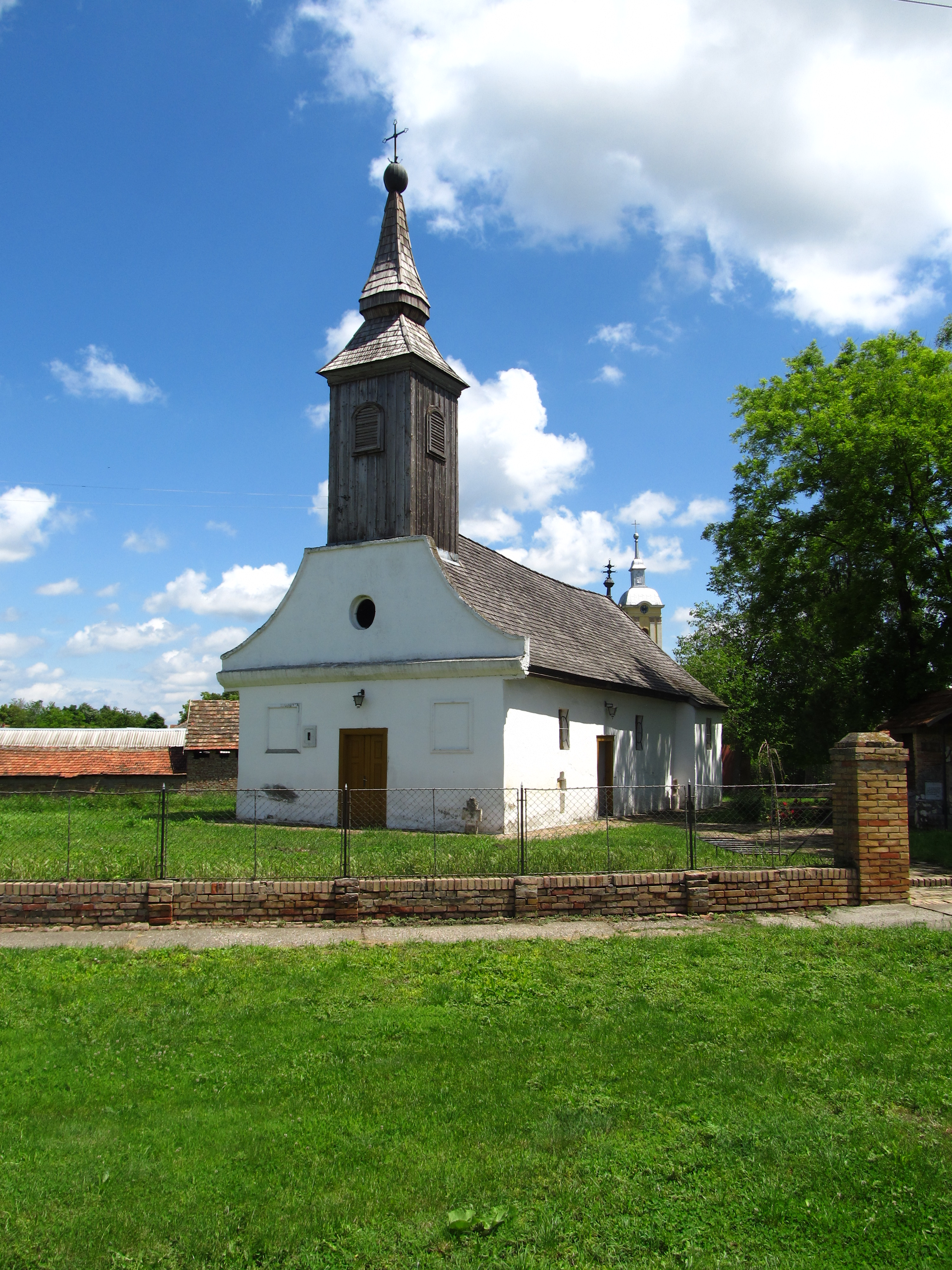 Serbian Orthodox church of Saint Nicholas in Ečka